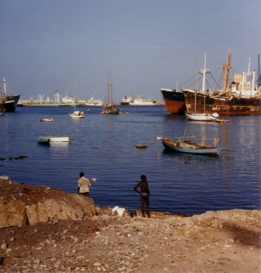 Harbour at Port Sudan